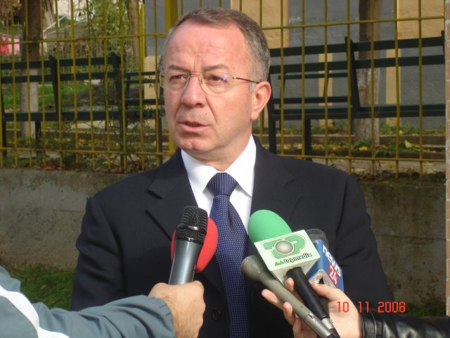 Rector of UT